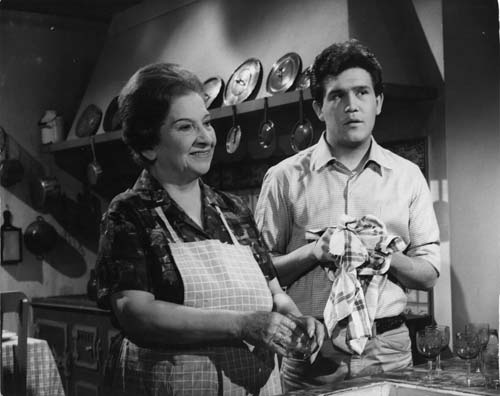 Como te extraño mi amor- película argentina de 1966